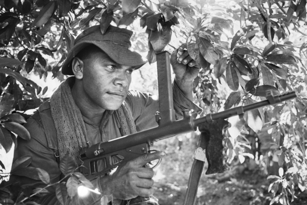 Aboriginal soldier 15989 Corporal Thomas Henry (Tom or "Buddy") Lea, 10 Platoon, D Company, 6 RAR, of Rockhampton, Qld, moves cautiously into a Viet Cong village with his Owen gun at the ready during the first mission by the 6th Battalion, The Royal Australian Regiment (6RAR), Operation Enoggera.